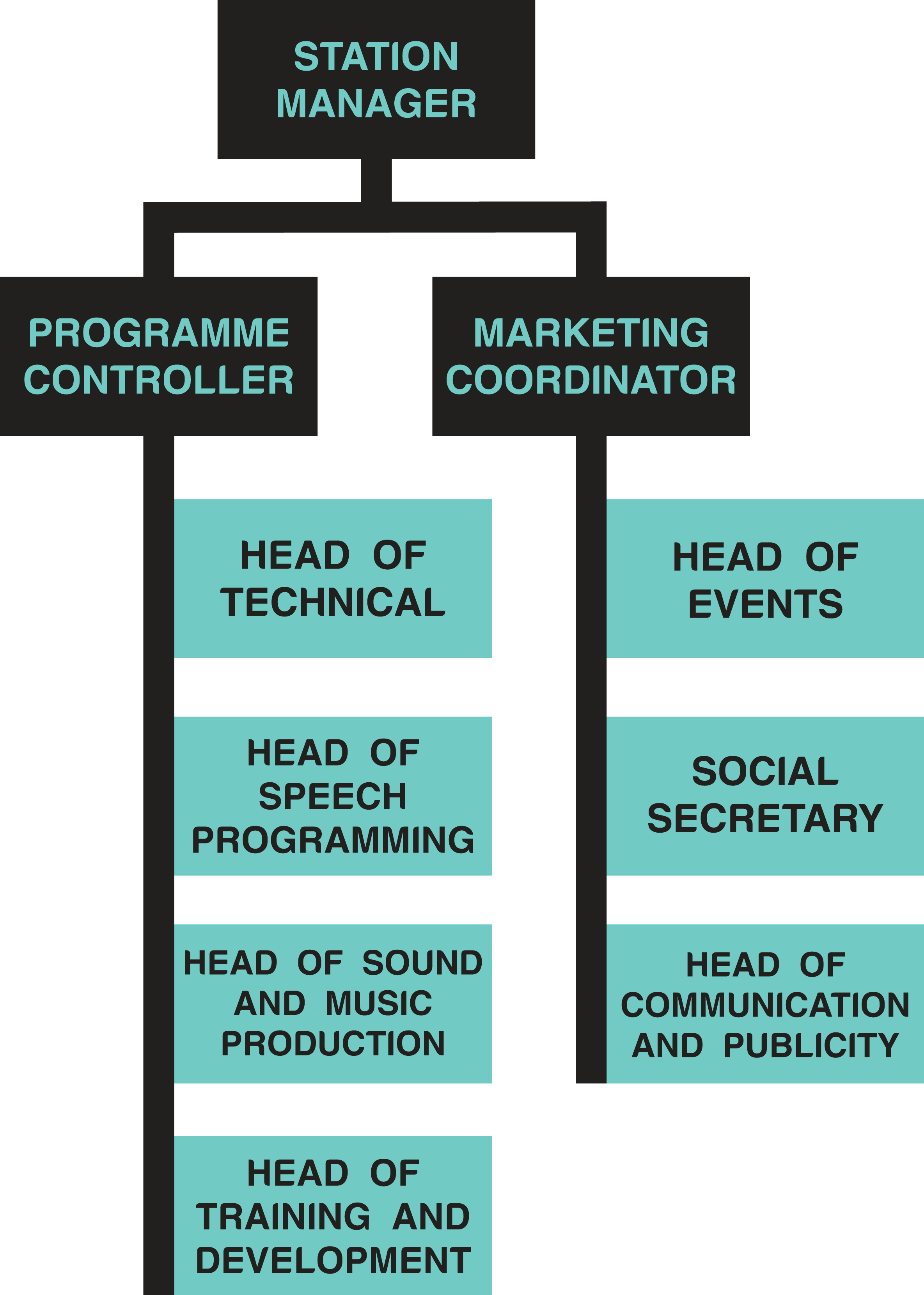 Structure of the Stag Radio Committee as of 25th Sept 2017